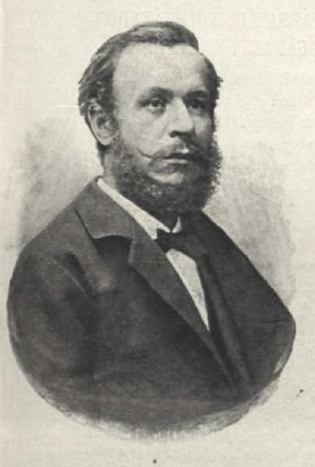 Gusztáv Kelety